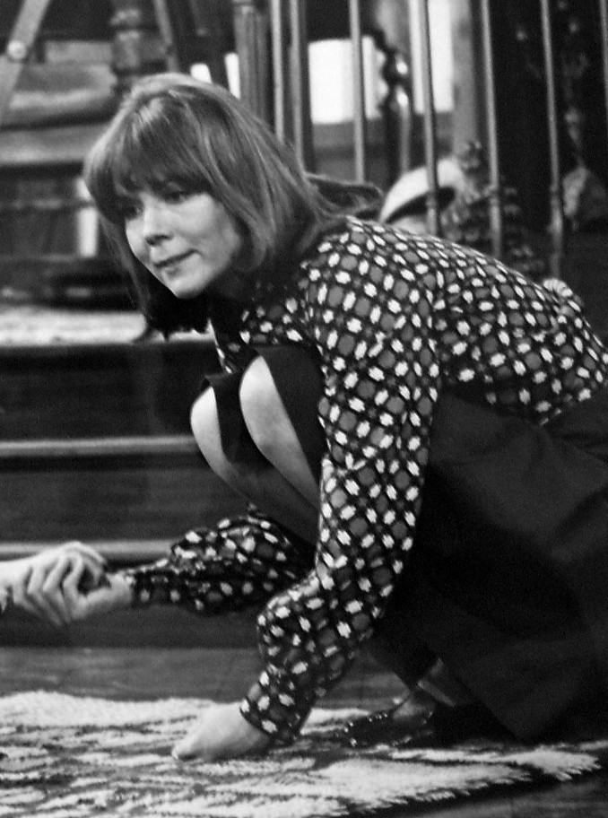 Photo of Diana Rigg as Diana Smythe, from the television program Diana.